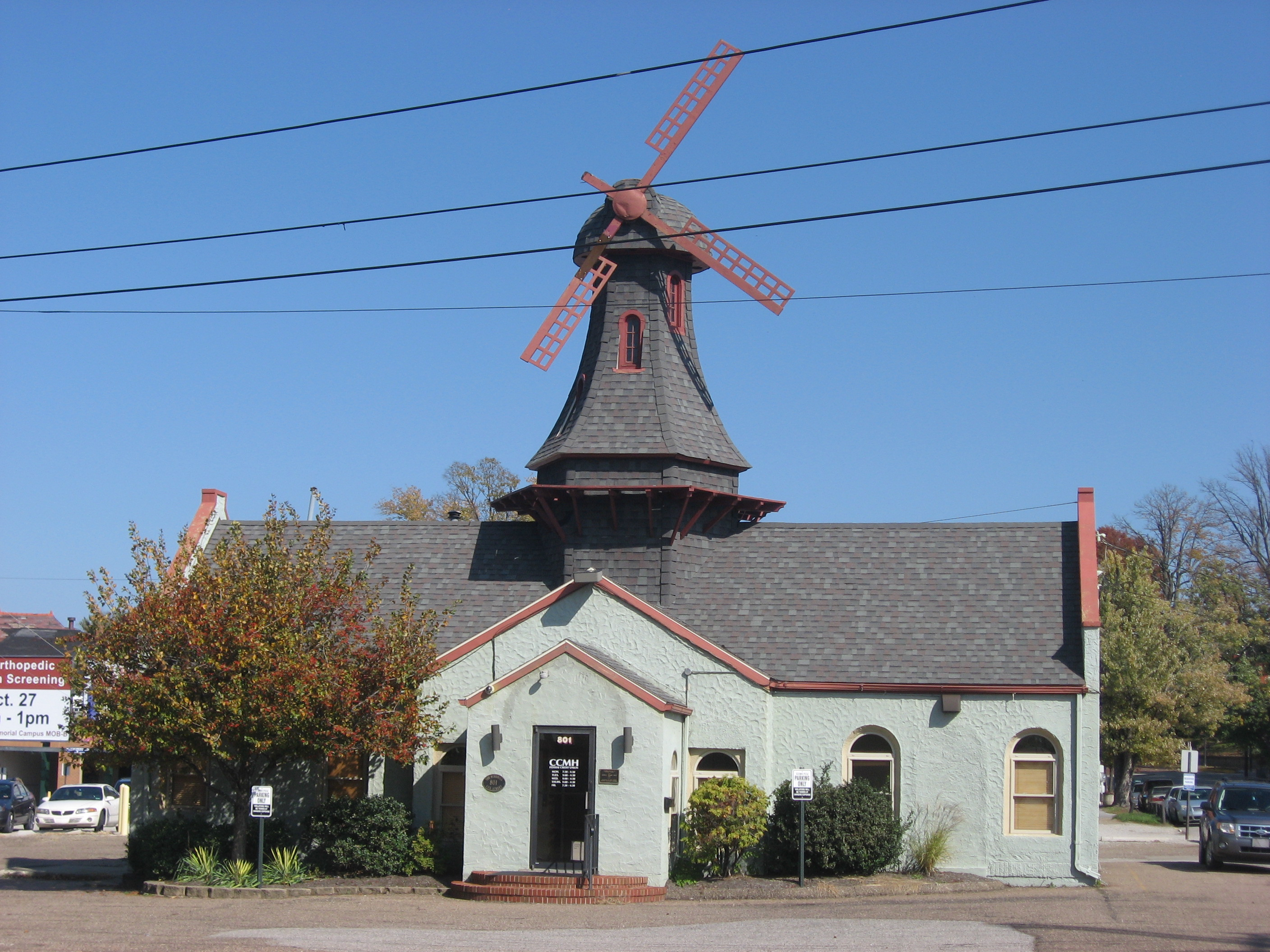 Front of the Windmill Quaker State (now Camden-Clark Memorial Hospital Credit Union), located at 800 Murdoch Avenue (West Virginia Routes 14/68) in Parkersburg, West Virginia, United States. Built in 1928 as an oil change facility, it is listed on the National Register of Historic Places.